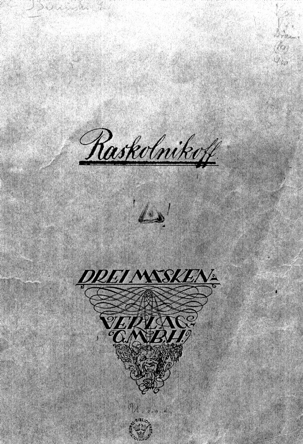 Cover of the first edition of Raskolnikoff (1912).